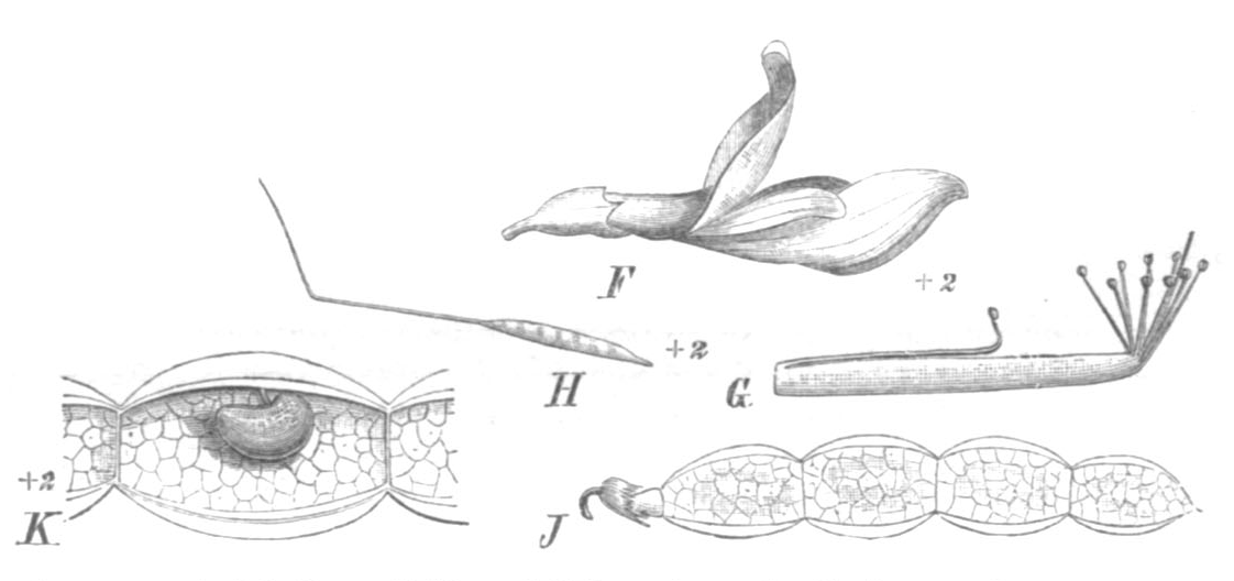 Illustration from book